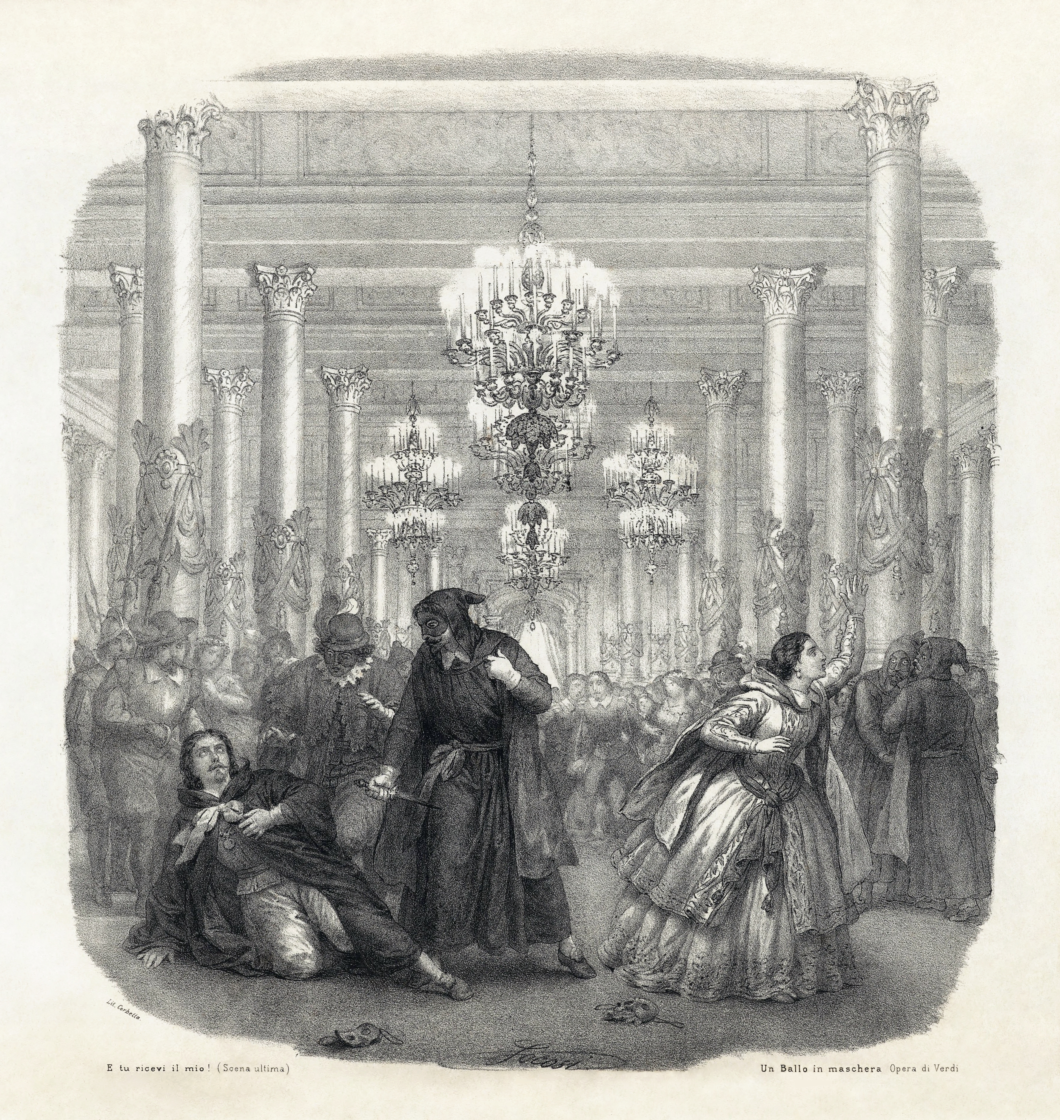 Frontispiece to the 1860 vocal score of Giuseppe Verdi's Un Ballo in maschera published by Ricordi, showing the final scene, "Et tu ricevi il mio!"